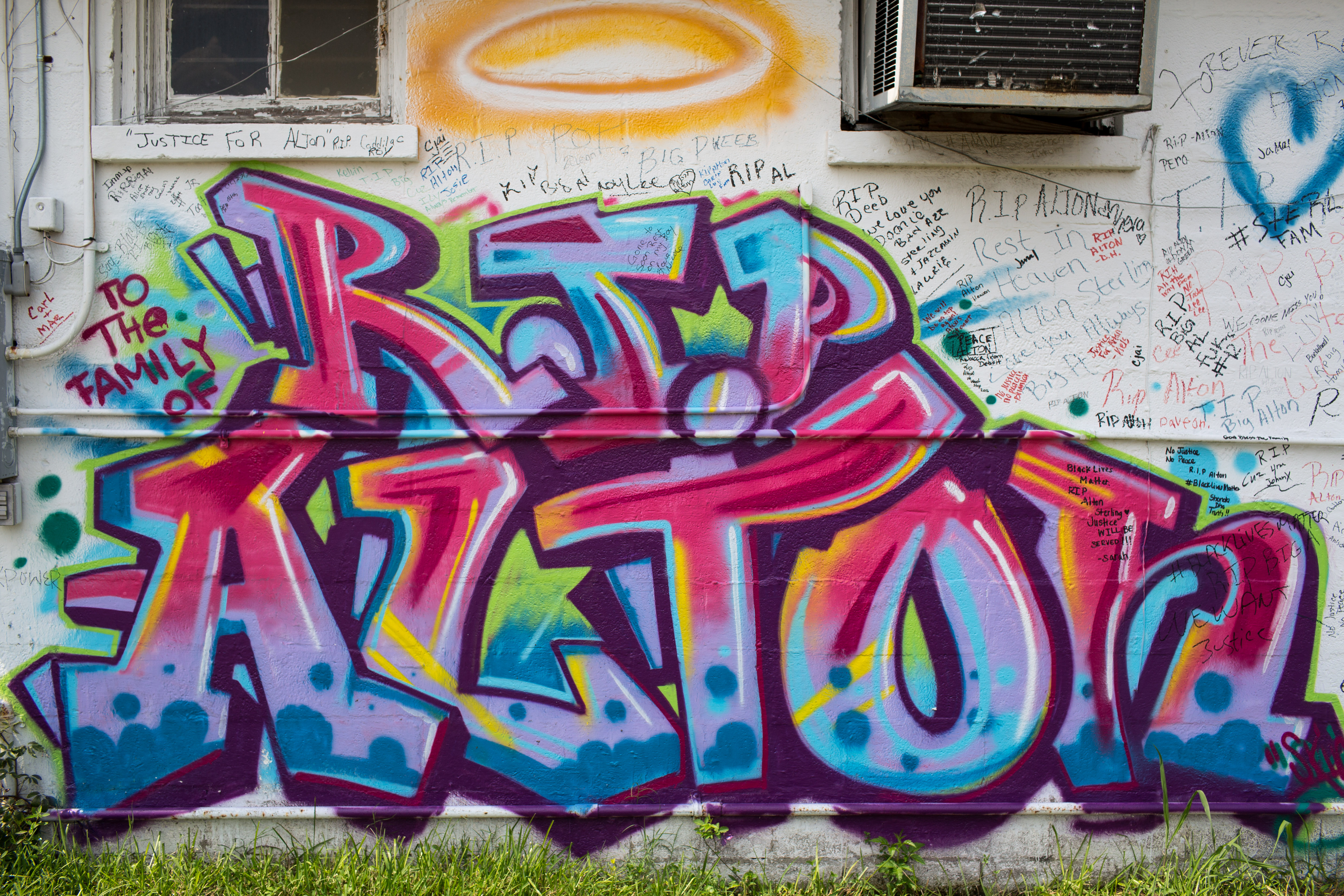 Baton Rouge, Louisiana. Memorial wall to Alton Sterling, near the Triple S Mart